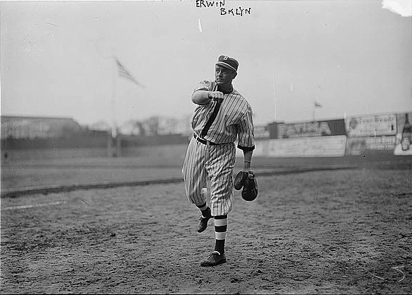 Ross "Tex" Erwin, Brooklyn NL, at Ebbets Field. Photo courtesy of Library of Congress, George Grantham Bain Collection.